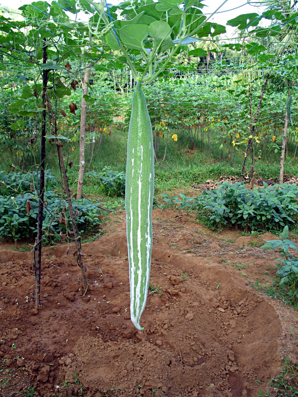 Photograph of Trichosanthes Cucumerina (aka Snake Gourd)